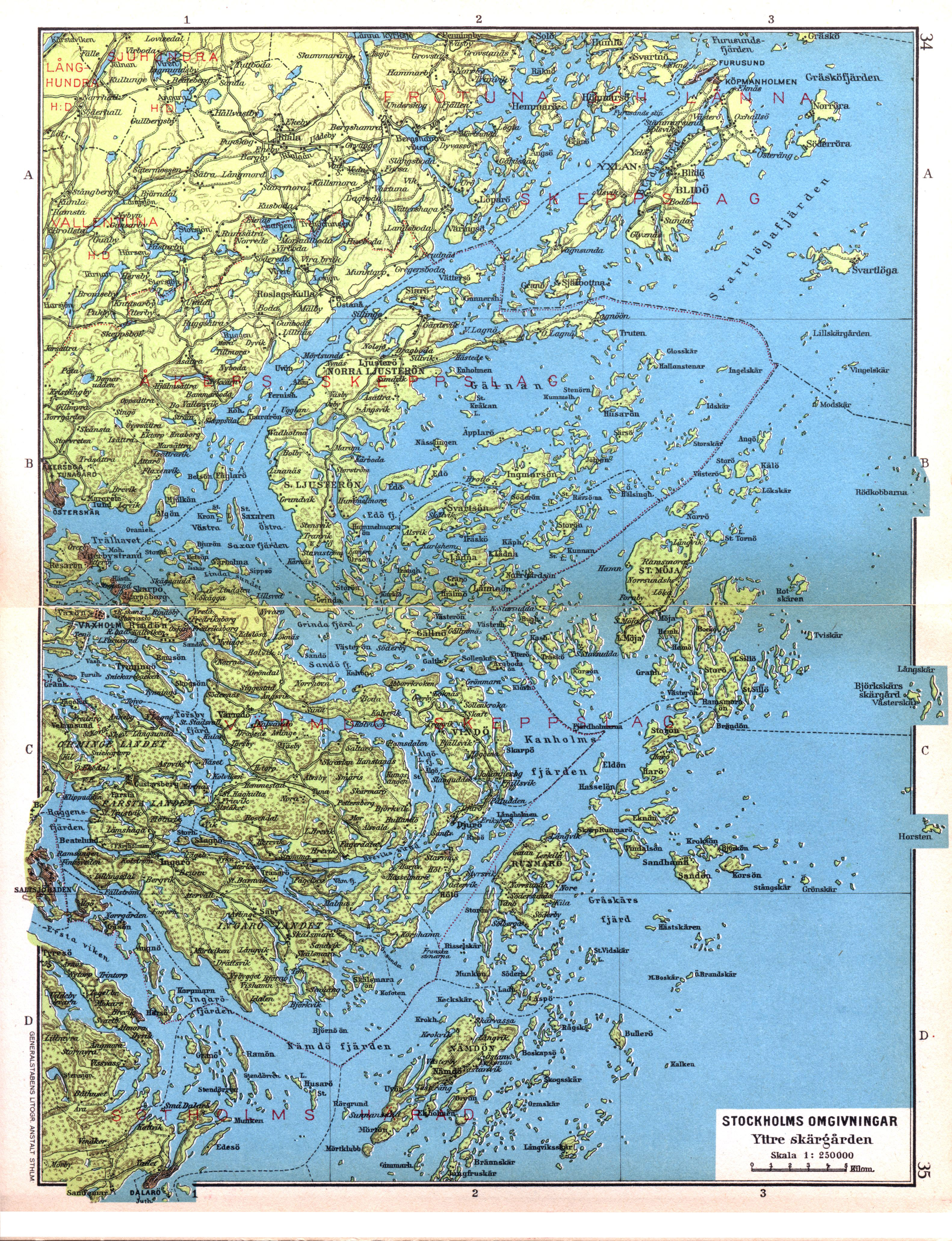 Map of Stockholm archipelago in Sweden.